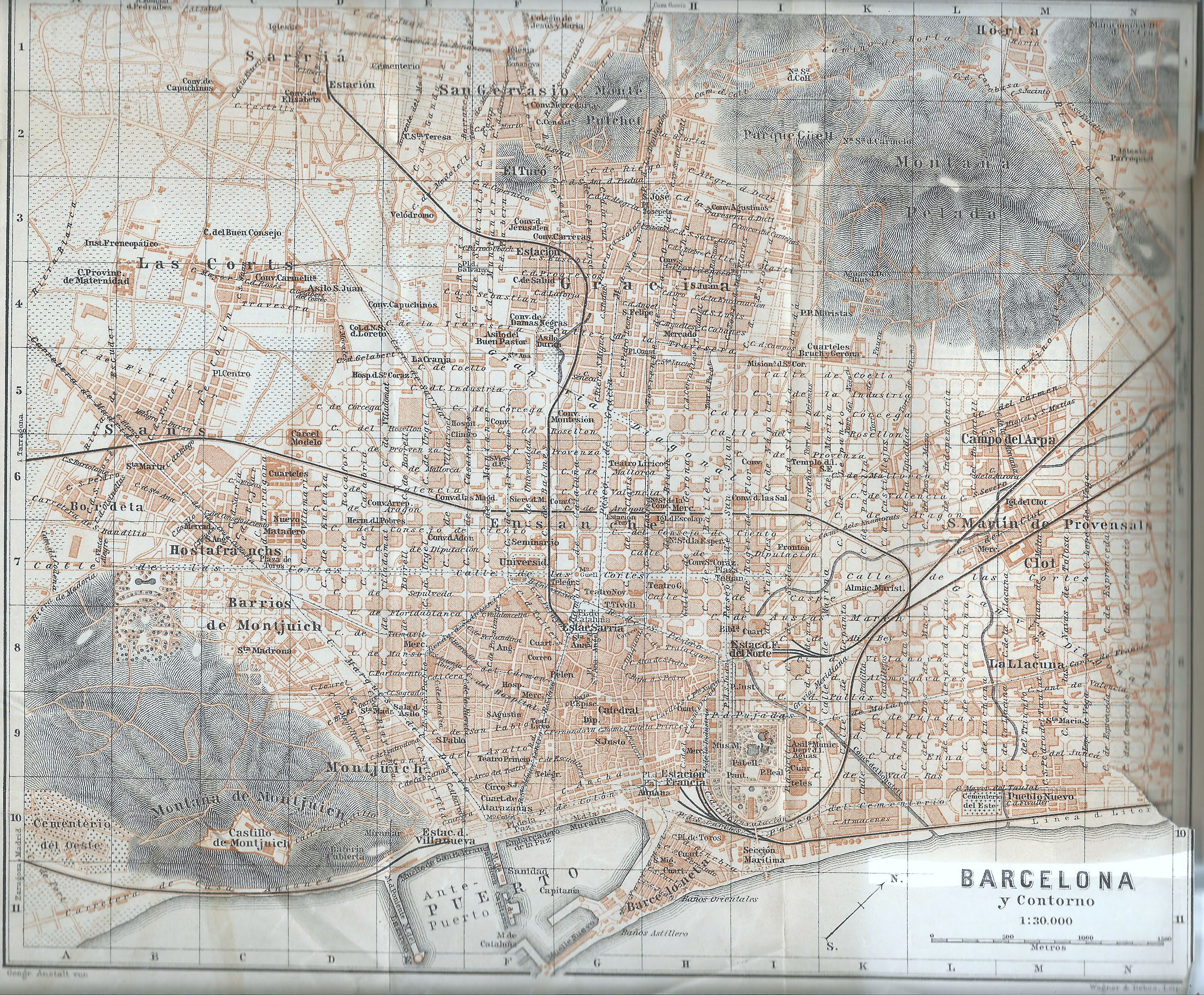 1908 map of Barcelona with no underground rail tunnels and the tramlines.